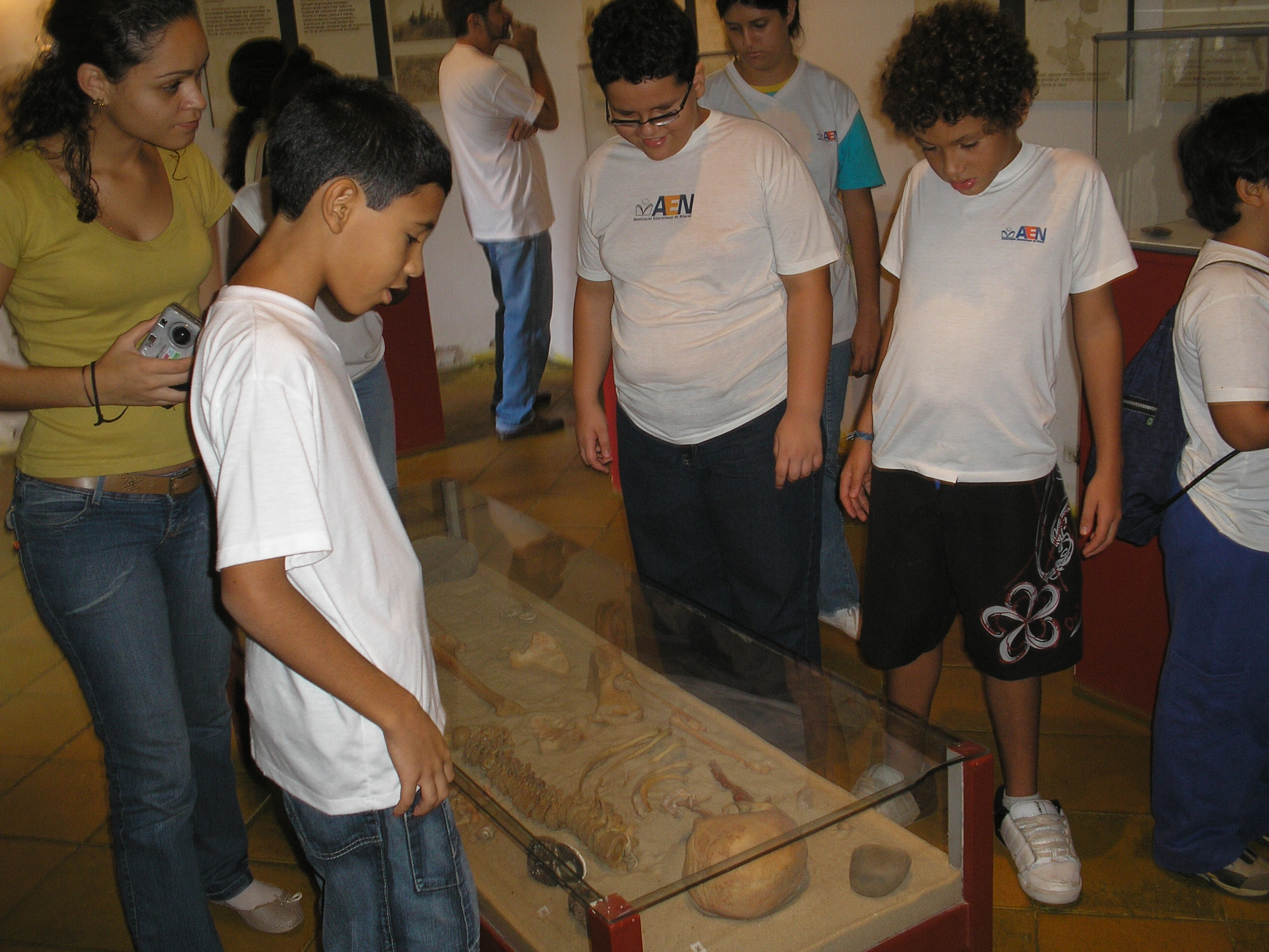 Students visiting the Museum.